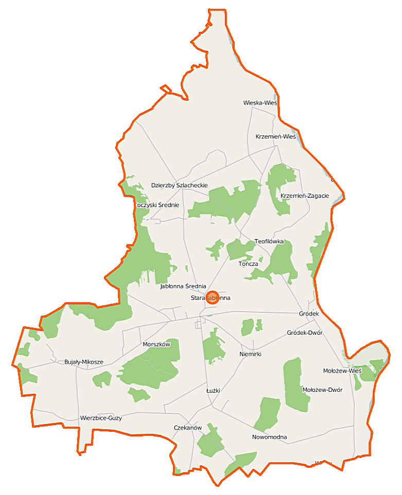 Map of Gmina Jabłonna Lacka, Poland This map of Jabłonna Lacka (gmina) was created from OpenStreetMap project data, collected by the community. This map may be incomplete, and may contain errors. Don't rely solely on it for navigation. Border coordinates52.590122.3246←↕→22.561852.4125